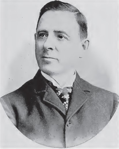 David A. Boody, Mayor of Brooklyn 1892-93.